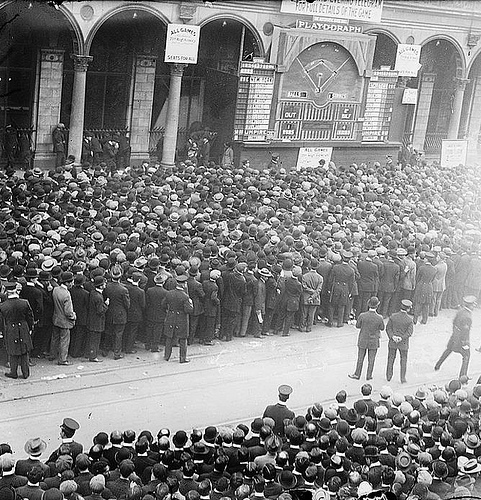 Bain News Service,, publisher. Crowd watching "playograph" at Herald Bldg., World Series, 1911 1911. 1 negative : glass ; 5 x 7 in. or smaller. Notes: Title from data provided by the Bain News Service on the negative. Forms part of: George Grantham Bain Collection (Library of Congress).